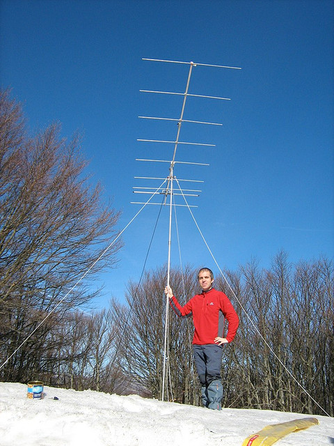 I/LG-022 M.Zuccone 9 element Tonna Yagi on Rhino mounting system, what better?